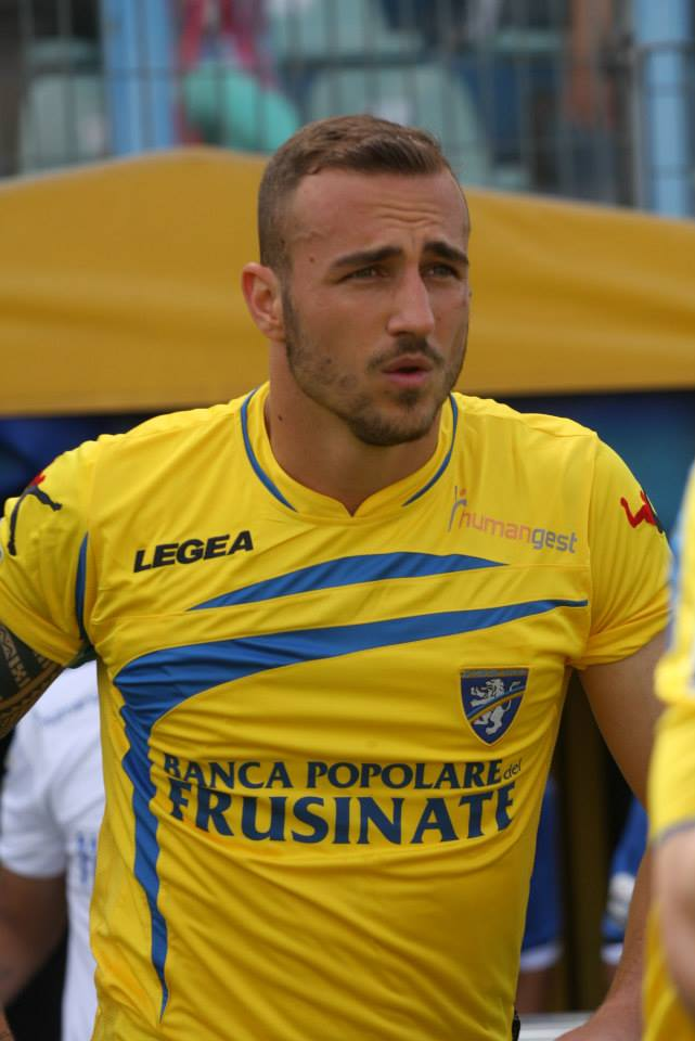 Leonardo Blanchard, Frosinone football player